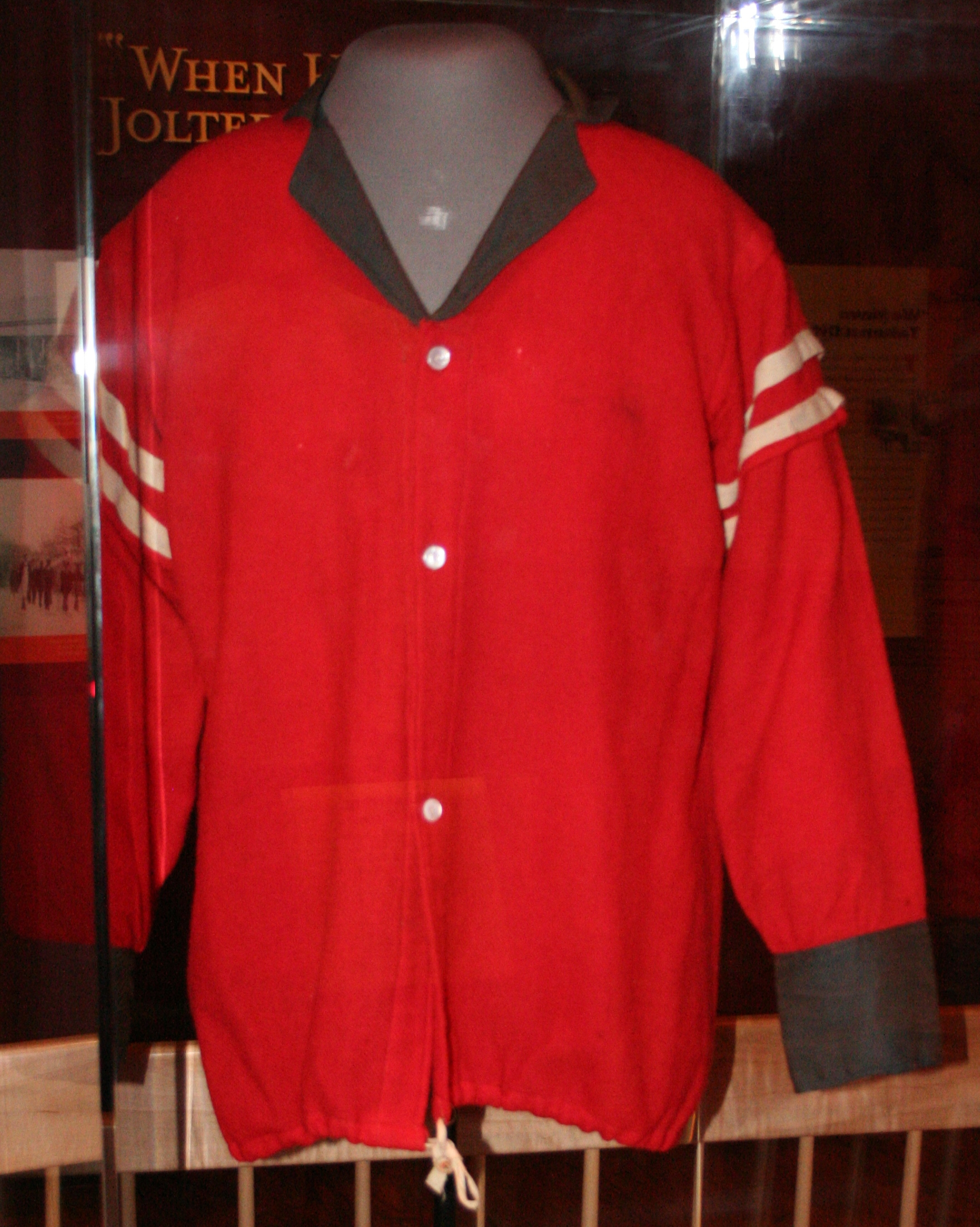 red shirt worn by militants in political rallies and in African American neighborhoods to intimidate voters on display in the North Carolina Museum of History.